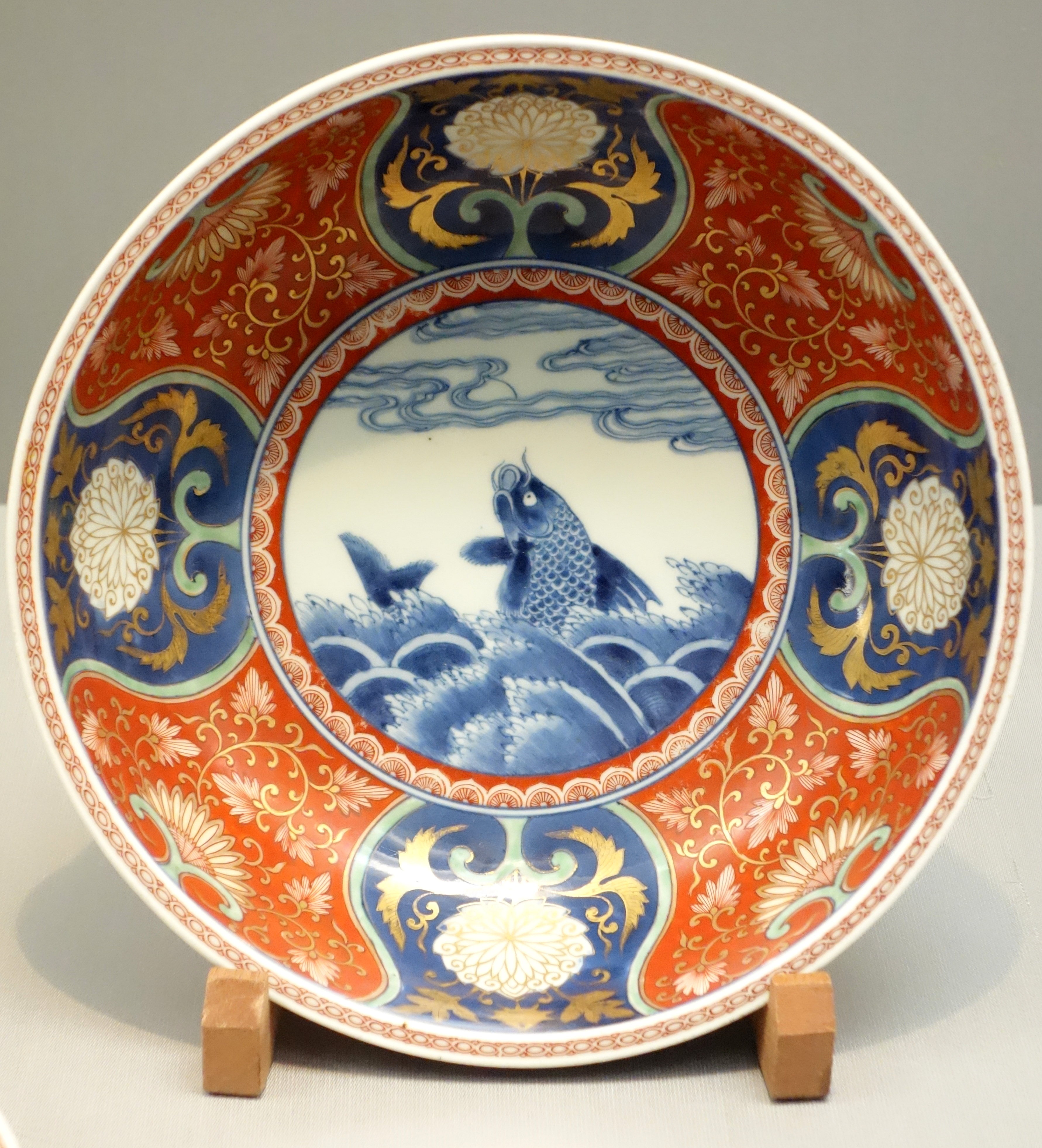 Imari ware bowl, stormy seascape design in overglaze enamel, Edo period, 17th-18th century. Exhibit in the Tokyo National Museum, Tokyo, Japan. This artwork is old enough so that it is in the public domain.